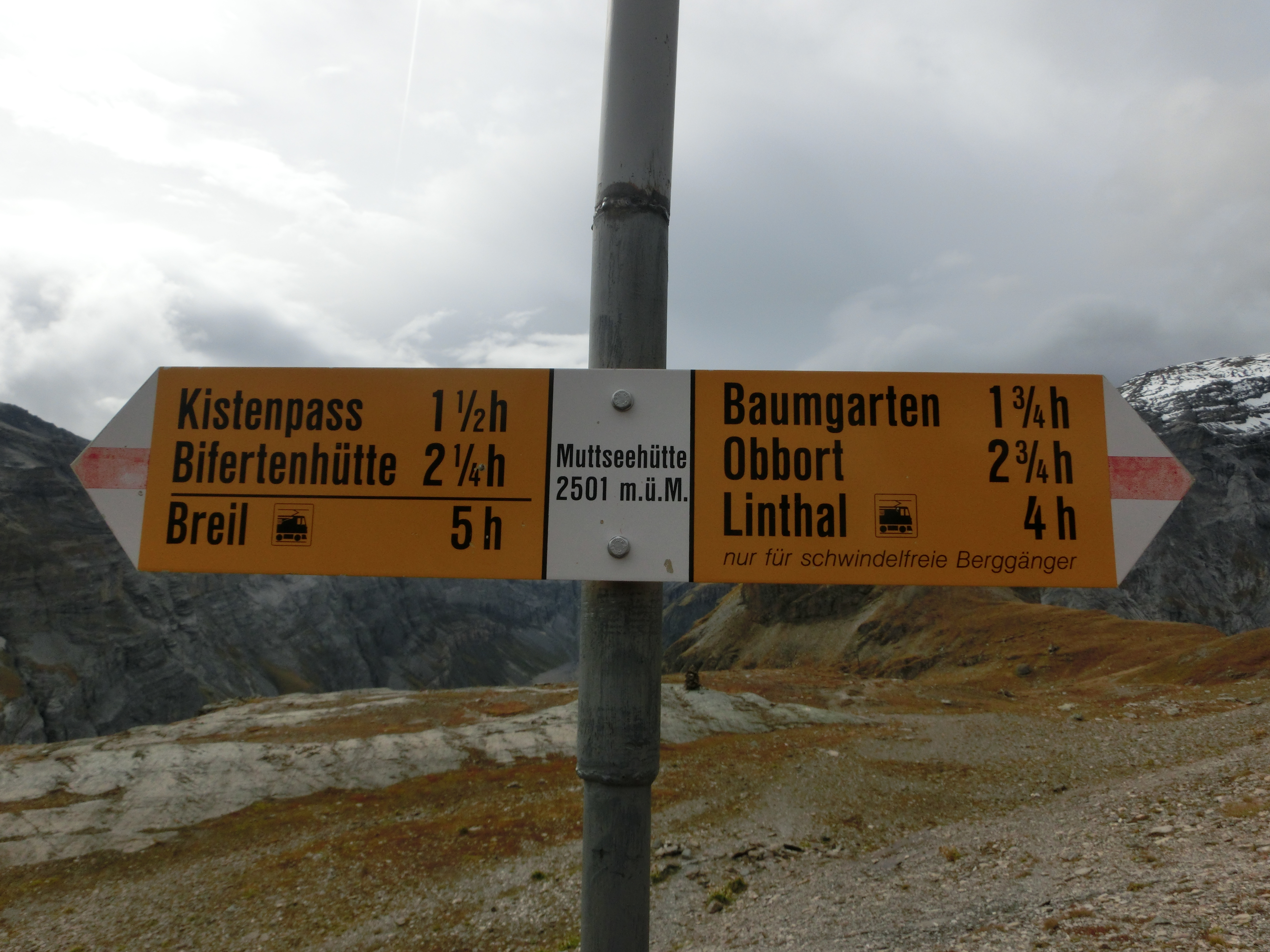 Fingerpost near Muttseehütte, Glarus Süd, Glarus, Switzerland